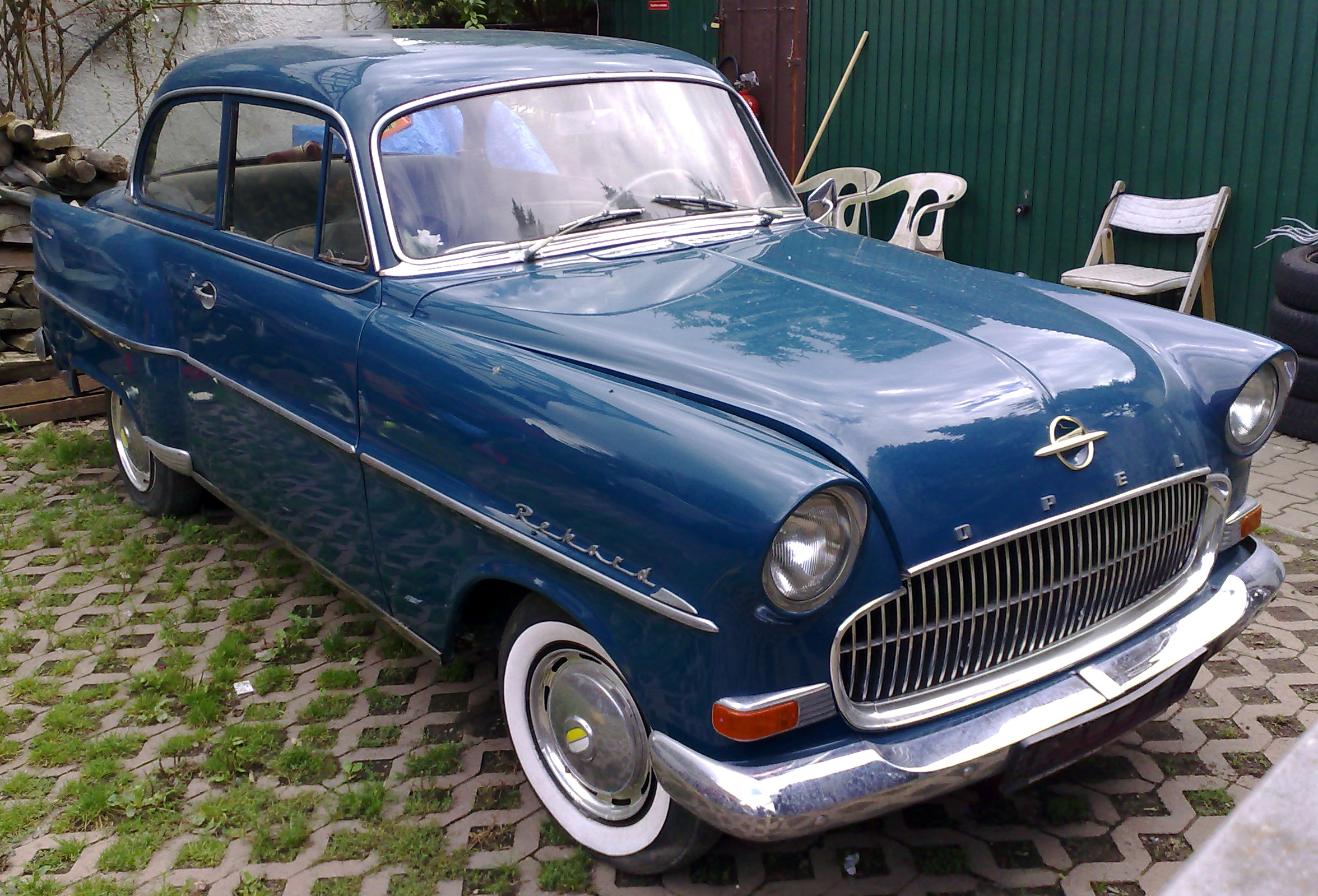 Opel Olympia Rekord